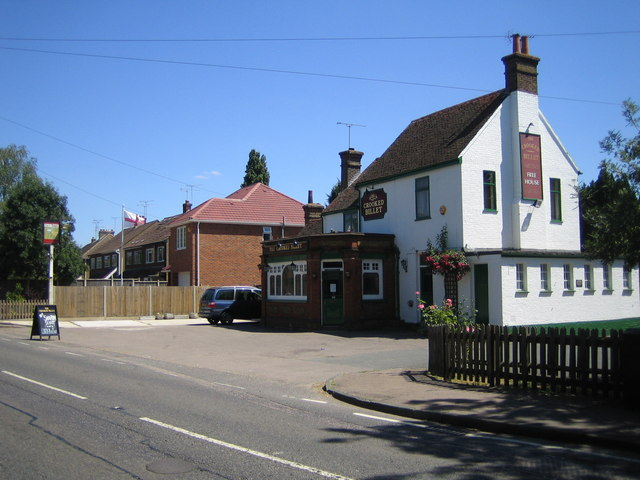 Lower Nazeing: The Crooked Bullet